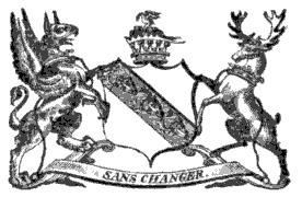 Coat of arms of the Earls of Derby